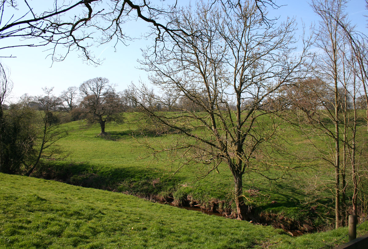 Tributary of the River Weaver near Rookery Hall, Worleston, Cheshire